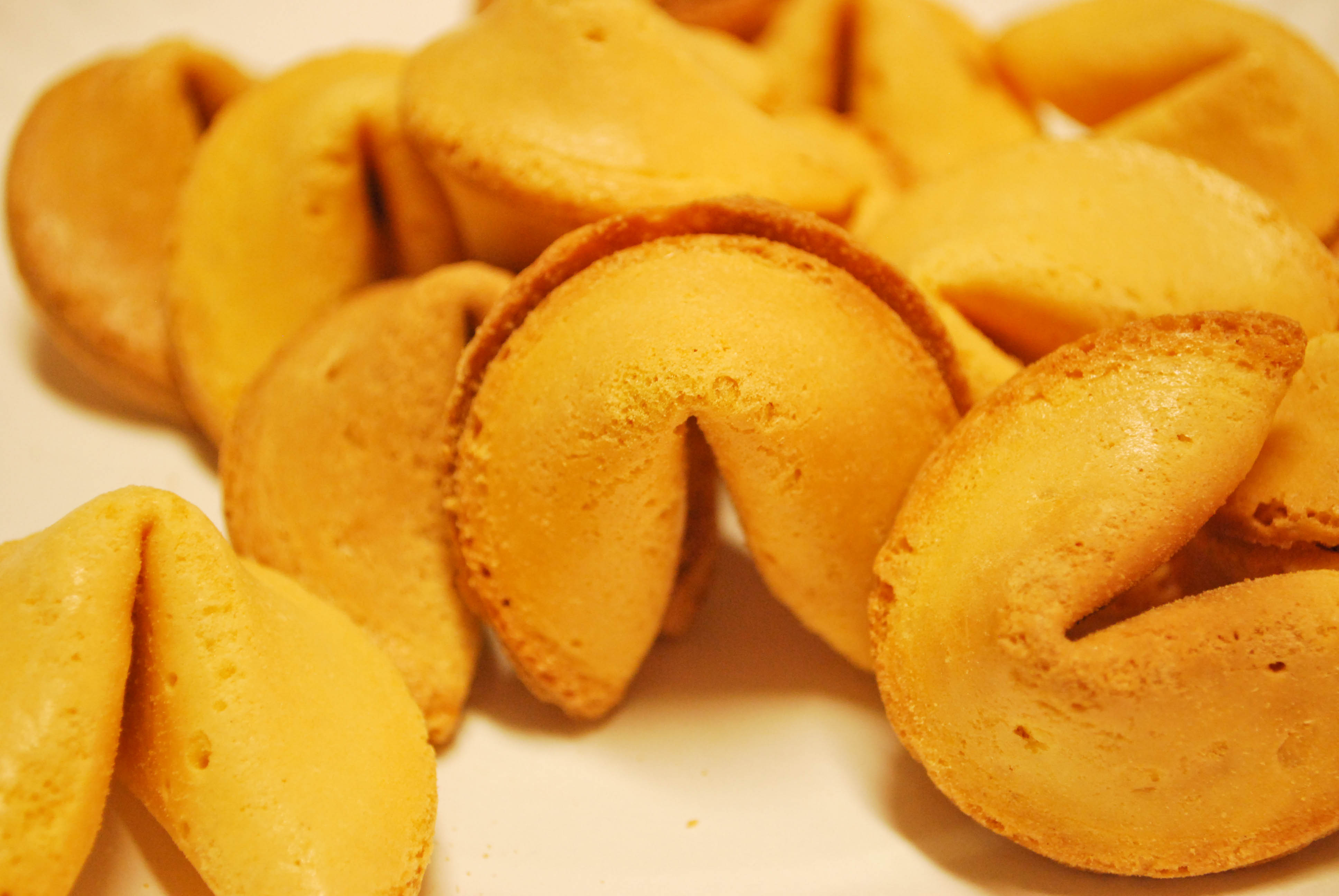 Image of fortune cookies